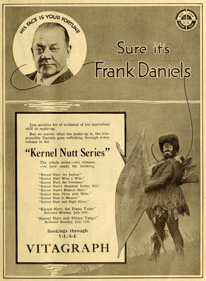 Advertisement in The Moving Picture World